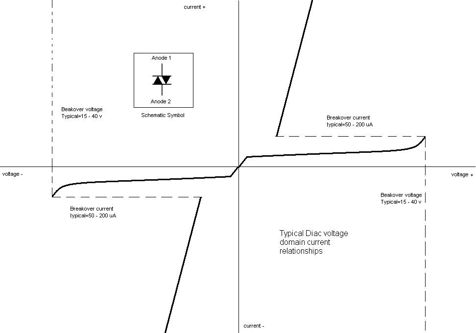 Typical Diac Voltage domain Current relationships (Kennlinie Diac)